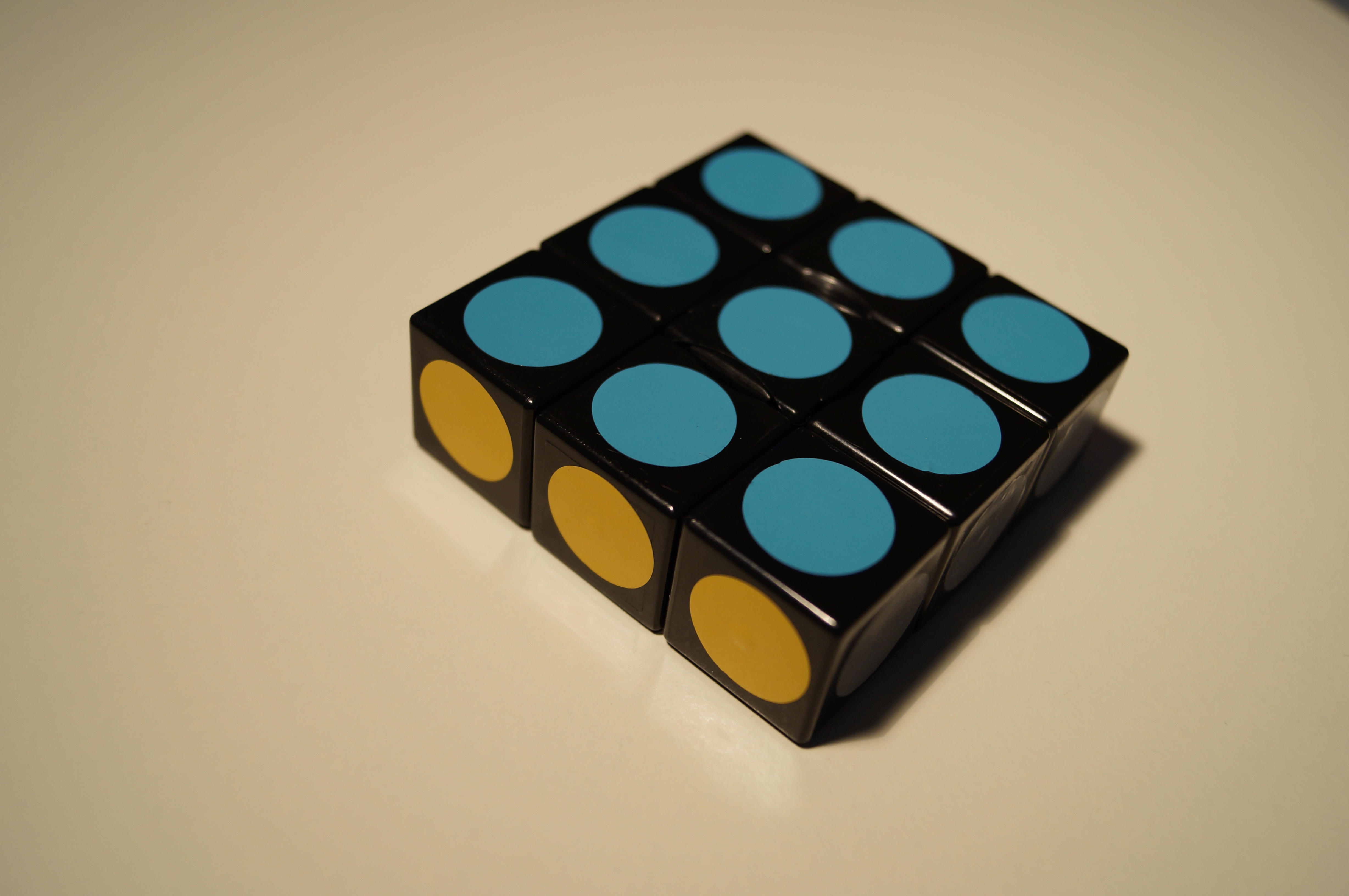 The solved Super Floppy Cube